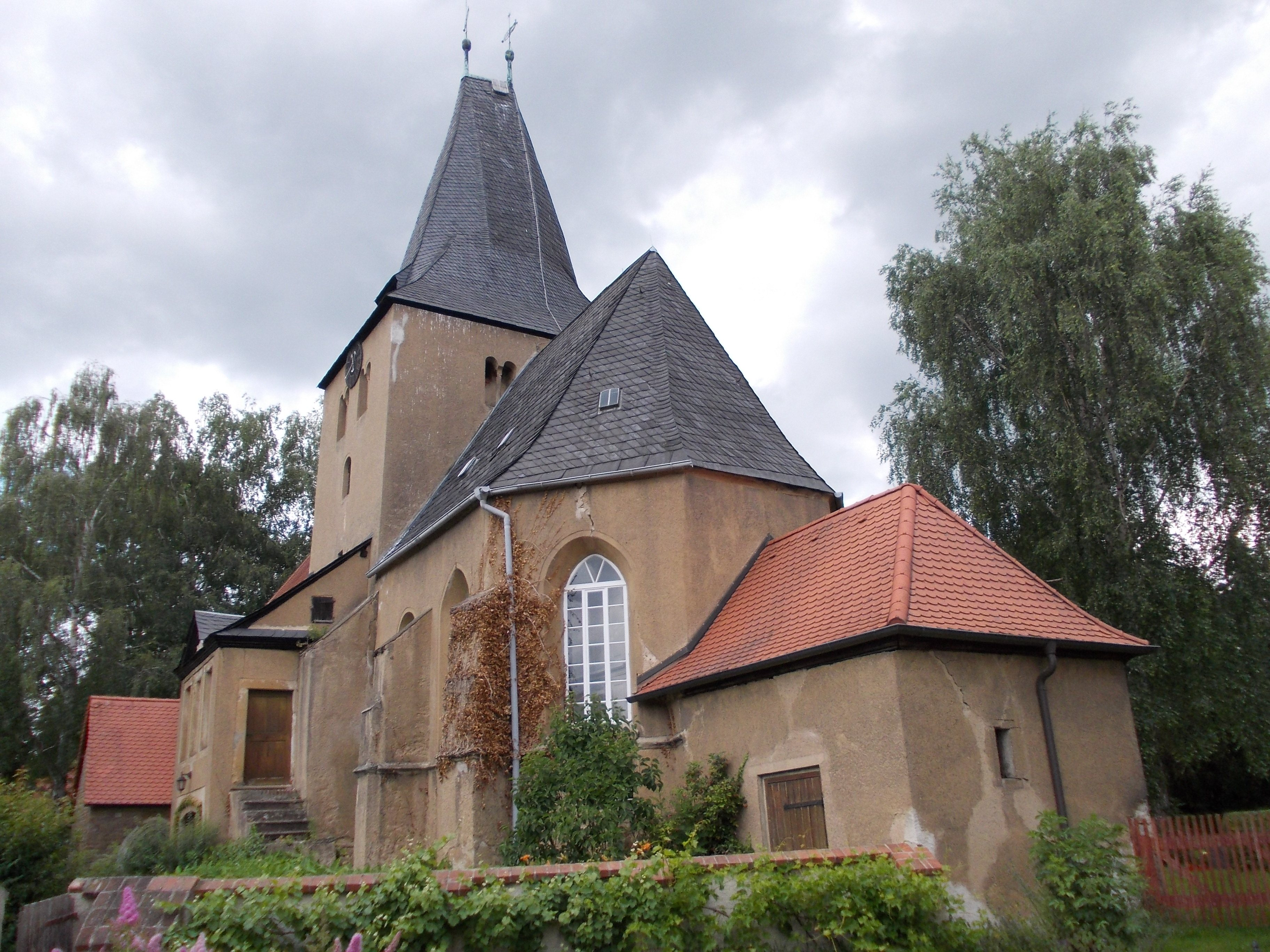 Langendorf church (Elsteraue, district of Burgenlandkreis, Saxony-Anhalt)